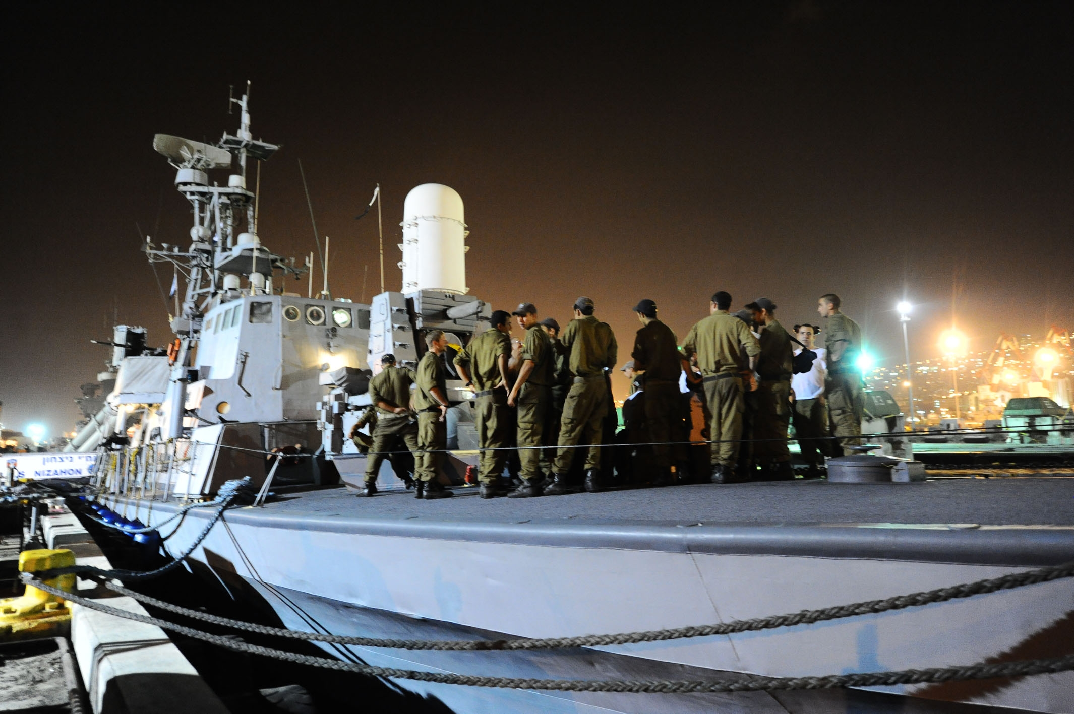 May 29, 2010. IDF Naval Forces prepare to implement the Israeli government's decision to prevent the flotilla from breaching the maritime closure on the Gaza Strip. In order to verify that cargo does not contain any materials which could be used by the Hamas government against the citizens of Israel, all materials transferred to Gaza are first inspected. Photography: SSgt. Michael Shvadron, IDF Spokesperson's Unit.